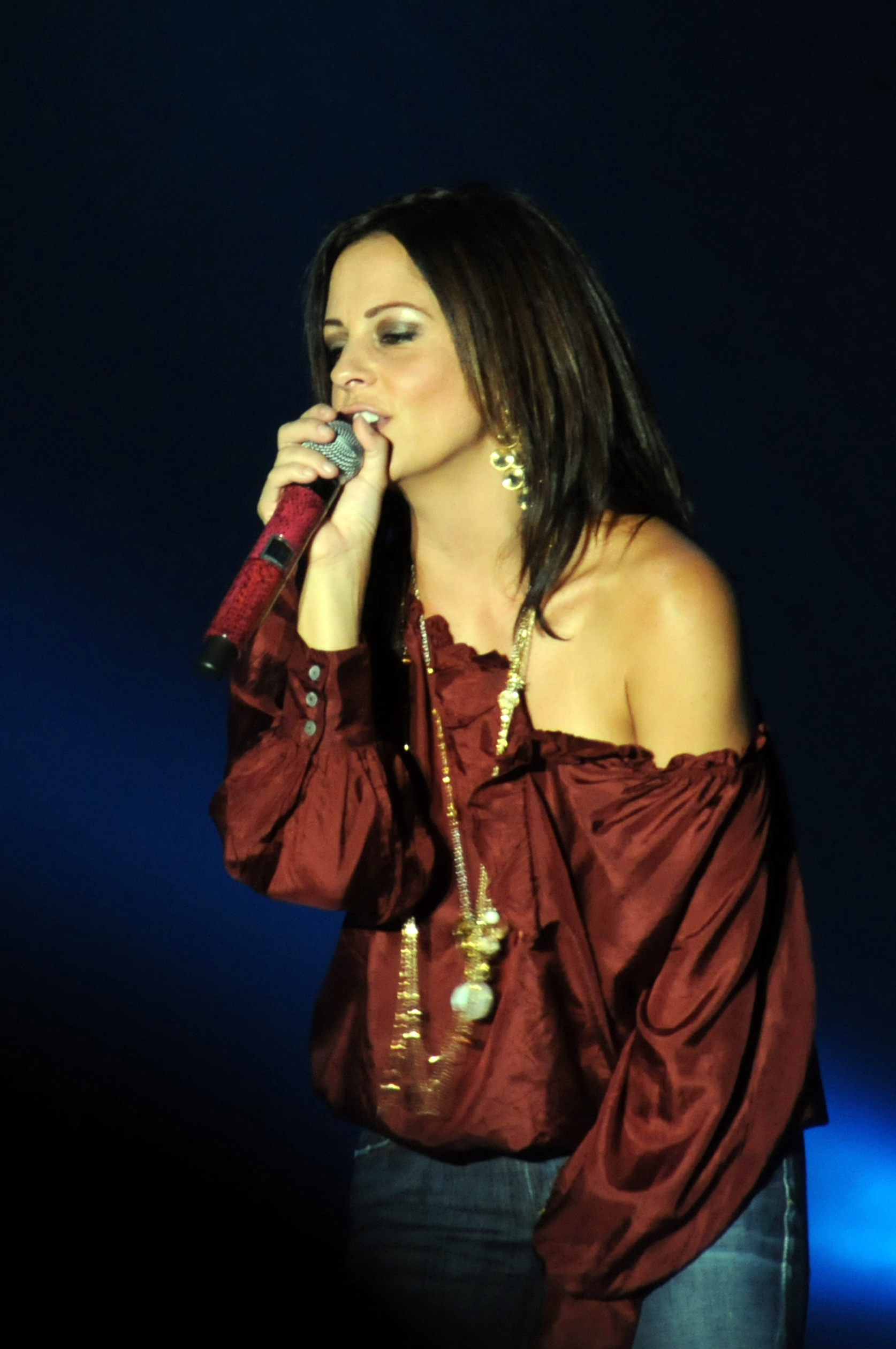 Country singer Sara Evans performs to a capacity crowd at Naval Amphibious Base, Little Creek. Part of the 2008 Navy Summer Concert Series, the concert was free and open to the general public.